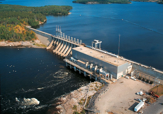 Ontario Power Generation's Caribou Falls, in Kenora, Ontario (Canada).